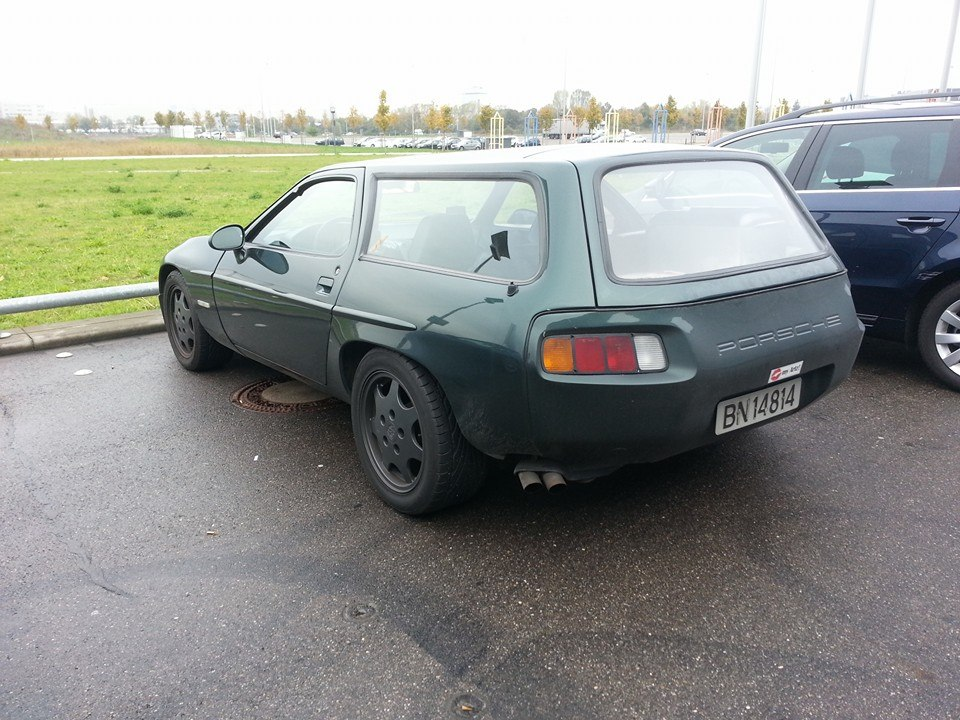 Porsche 928 station car